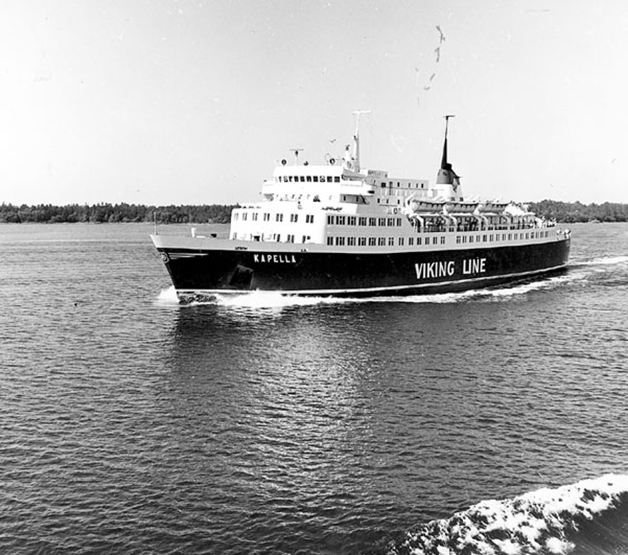 The cruiseferry MS Kappella of Viking Line.